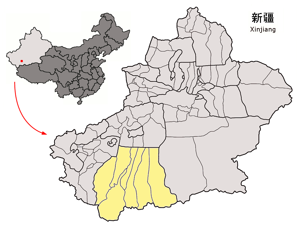 Location of Hotan Prefecture (yellow) within Xinjiang autonomous region of China Map drawn in september 2007 using various sources, mainly : Xinjiang Uygur autonomous region administrative regions GIS data: 1:1M, County level, 1990 Xinjiang Counties map from